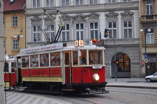 Prague tram number 91, own work, april 2006, plch